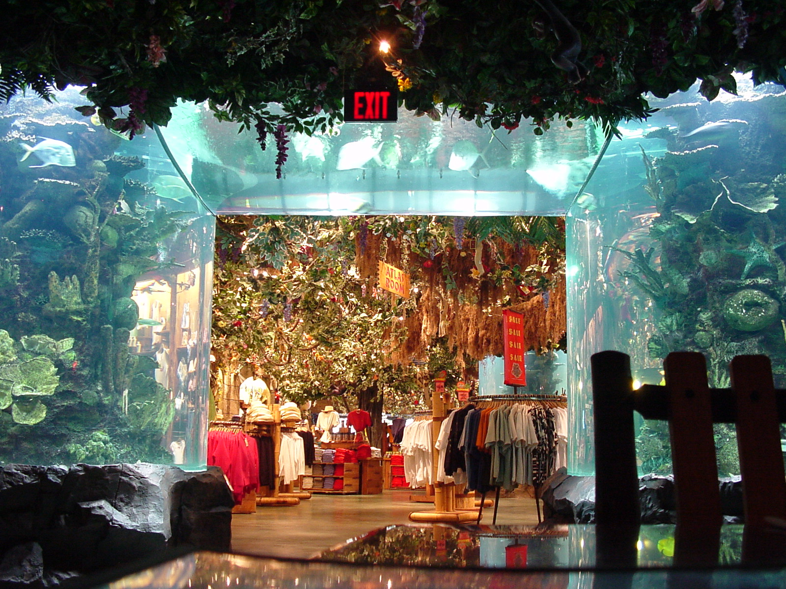 Connected fish tanks at Rainforest Cafe, Animal Kingdom, Disney World in 2002